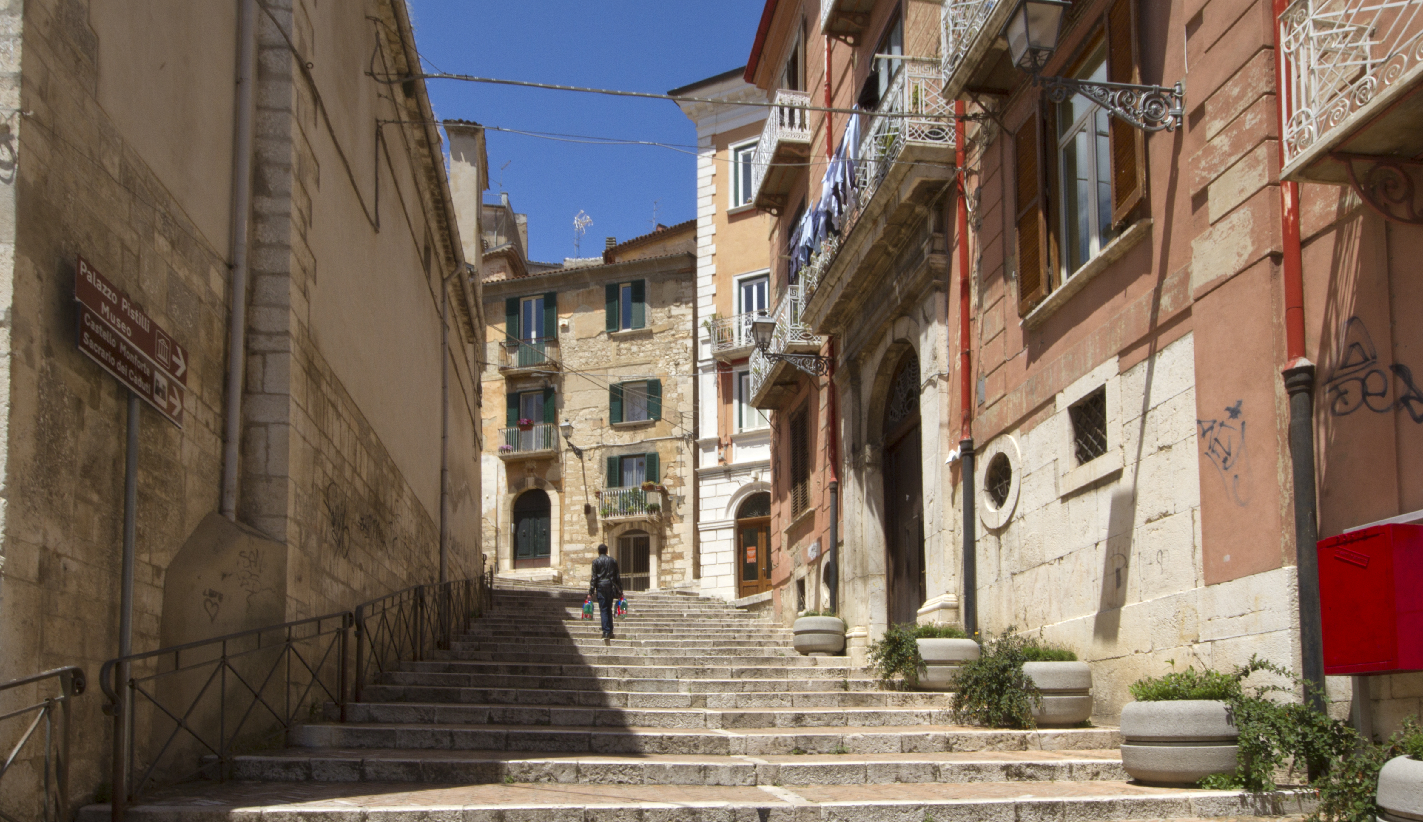 Old Town, 86100 Campobasso, Italy